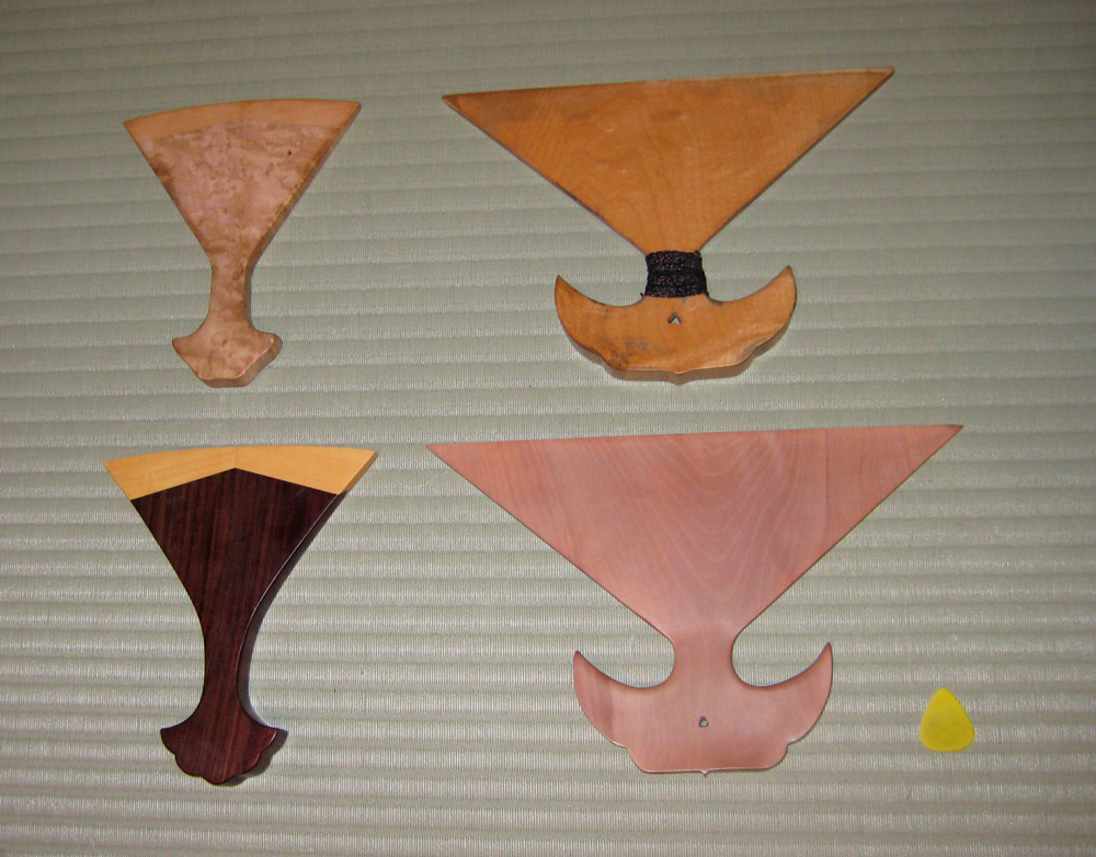 Two 5-string Chikuzen biwa plectra on the left side. Two Satsuma biwa plectra on the right.